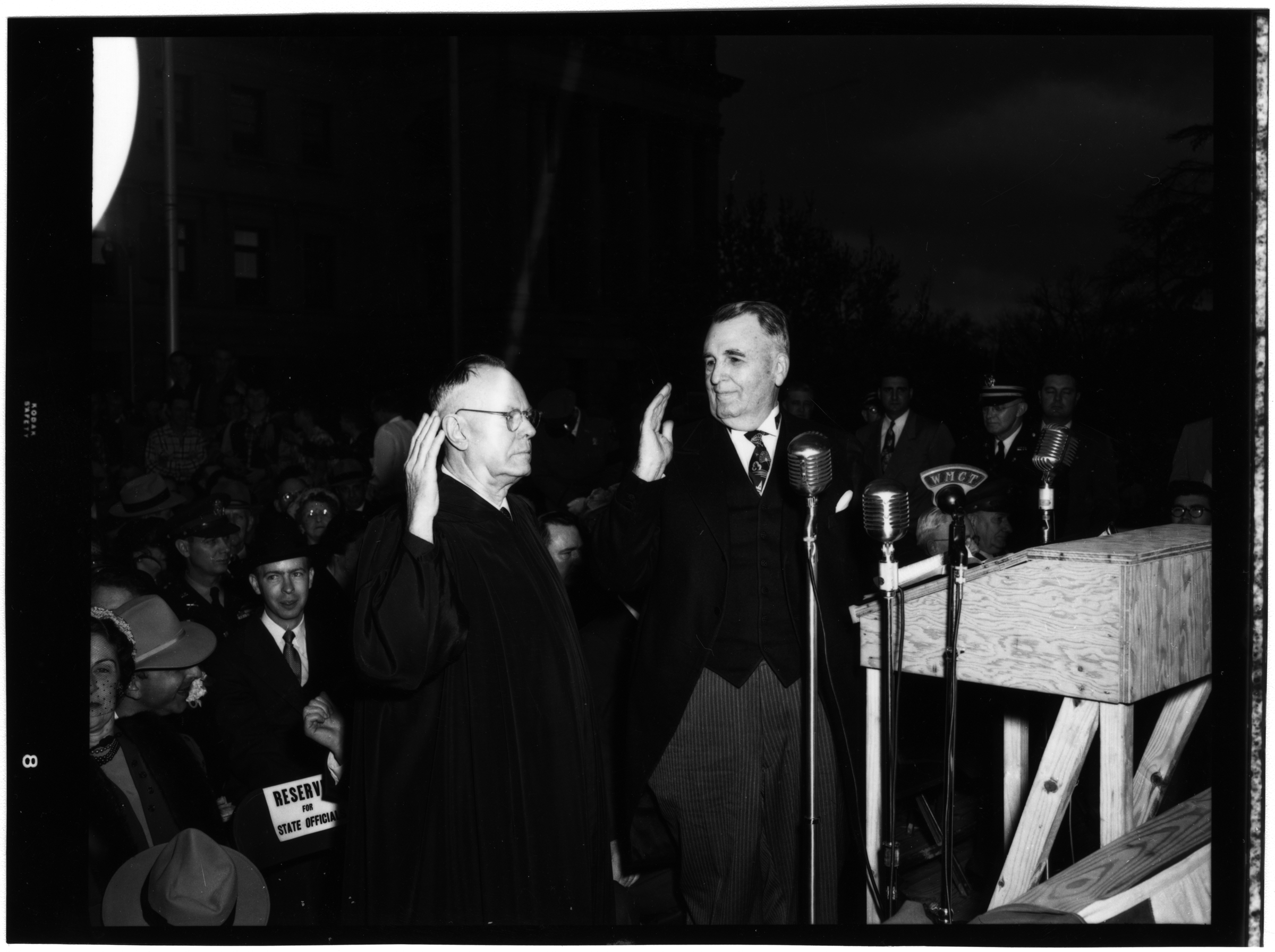 Collection: Witbeck, C. W., Photograph Collection Call number: PI/COL/1982.0016 System ID: 102864. Link to the catalog Governor Hugh White’s Inauguration, New Capitol, Jackson, 1-22-1952. Governor White and Chief Justice have right hands raised as oath of office is administered. Please see our profile page for information on ordering. Scanned as TIFF in 2010/09/07 by MDAH. Credit: Courtesy of the Mississippi Department of Archives and History